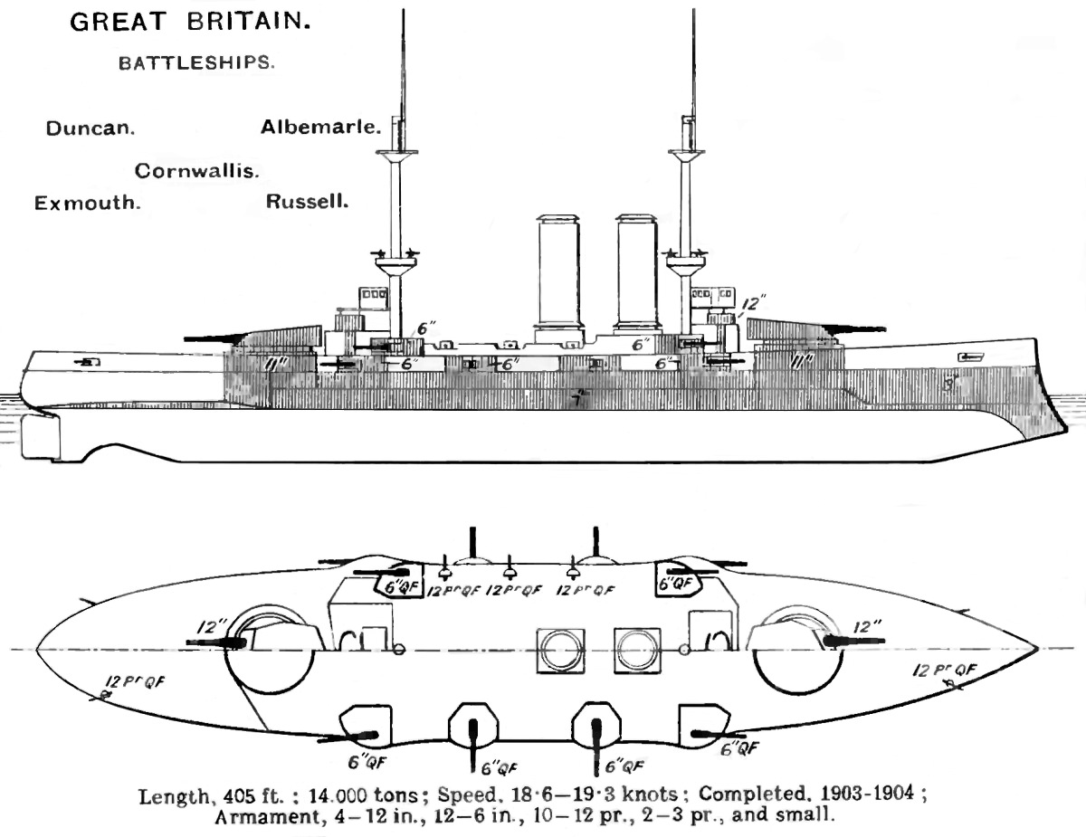 Right elevation and deck plan of British Duncan class battleship. Numbers on top diagram show armour thickness (shaded areas) in inches. Numbers on bottom diagram show size of guns in inches or pounds (shell).